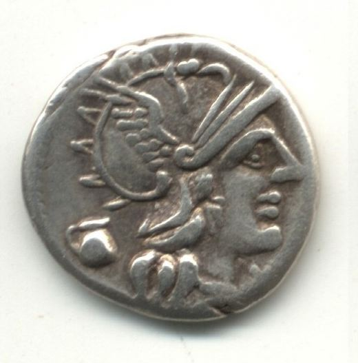 Denarius (c. 137 BC) Head of Roma r. X (for 10) below chin, jug behind.